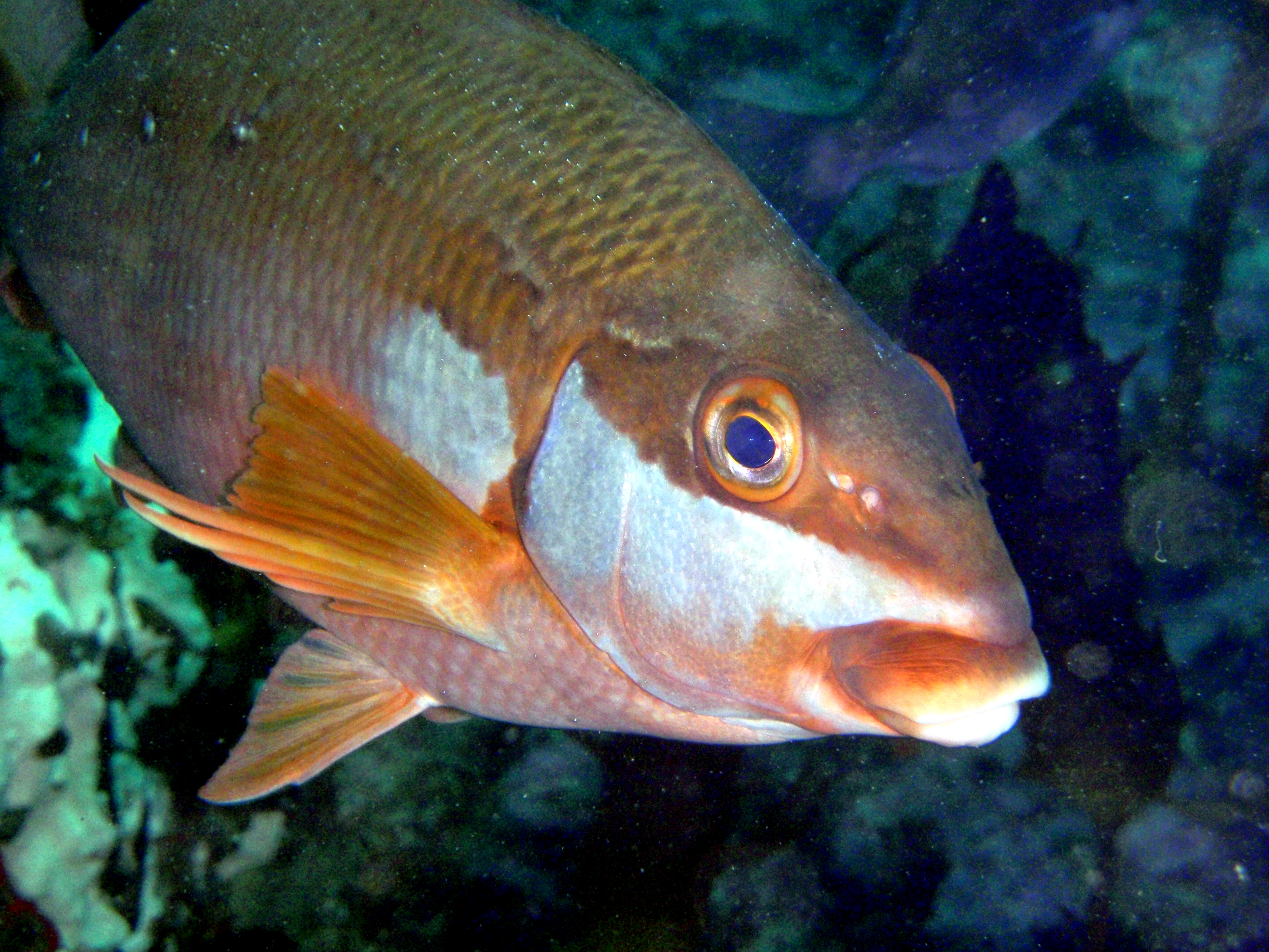 Two tone fingerfin at Finlay's Point, Finlay's Point.